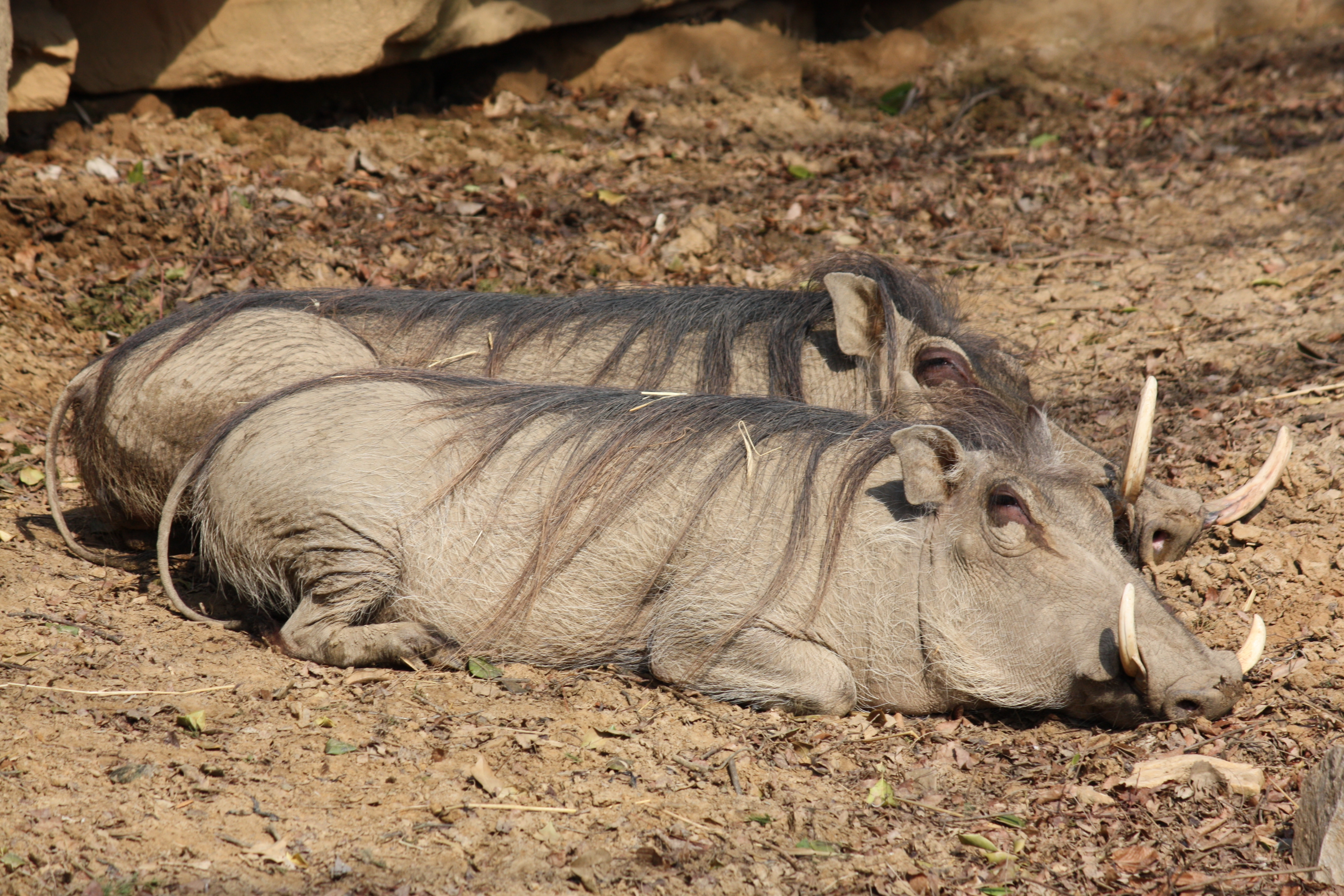 Warthogs (Phacochoerus africanus) at the Louisville Zoo